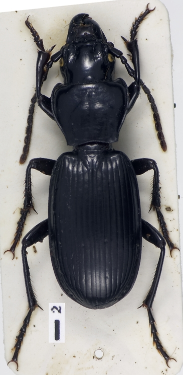 Tapinopterus protensus thessalicus